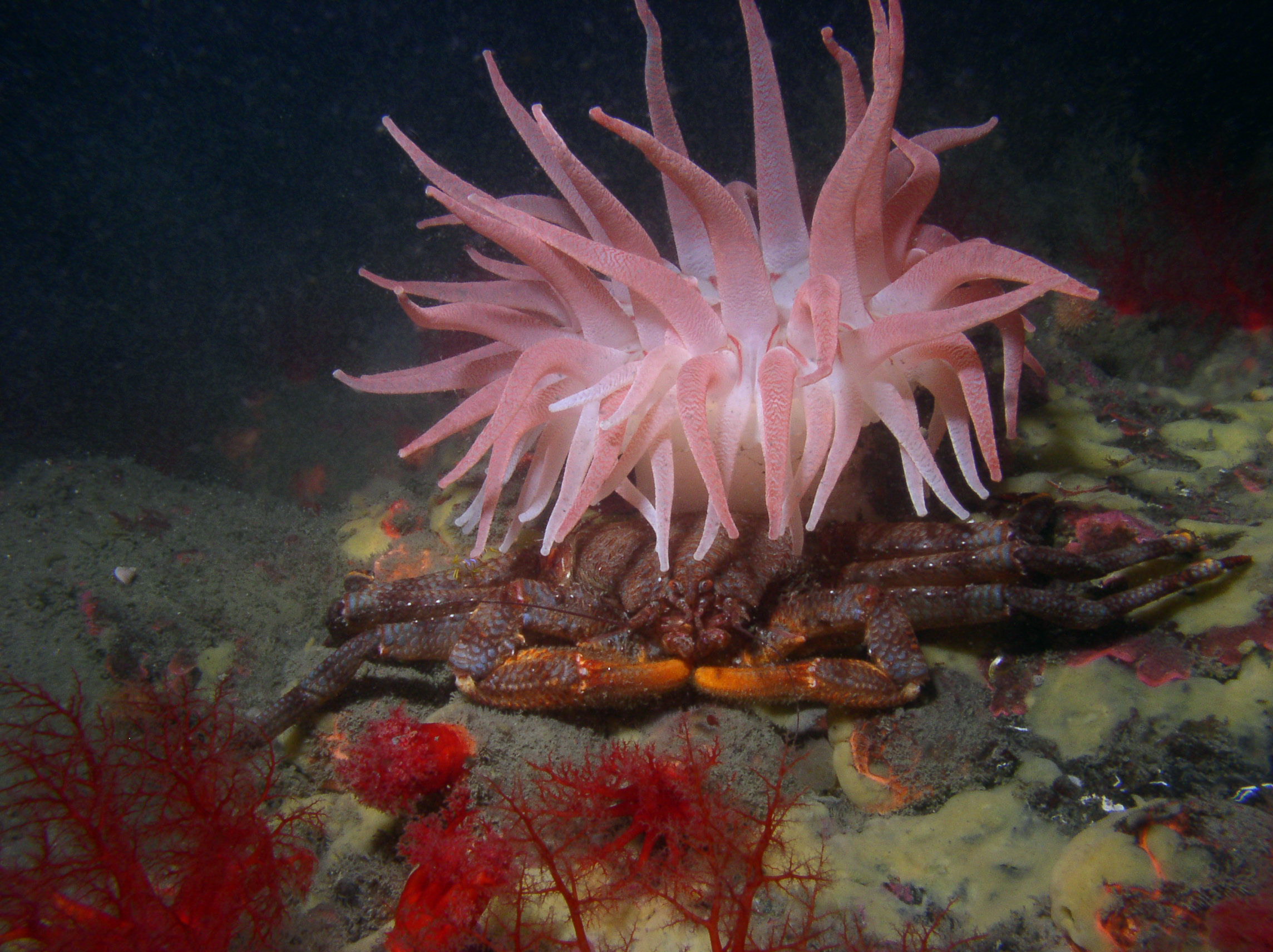 Placetron wosnessenskii taking refuge under a crimson anemone (Cribrinopsis fernaldii)